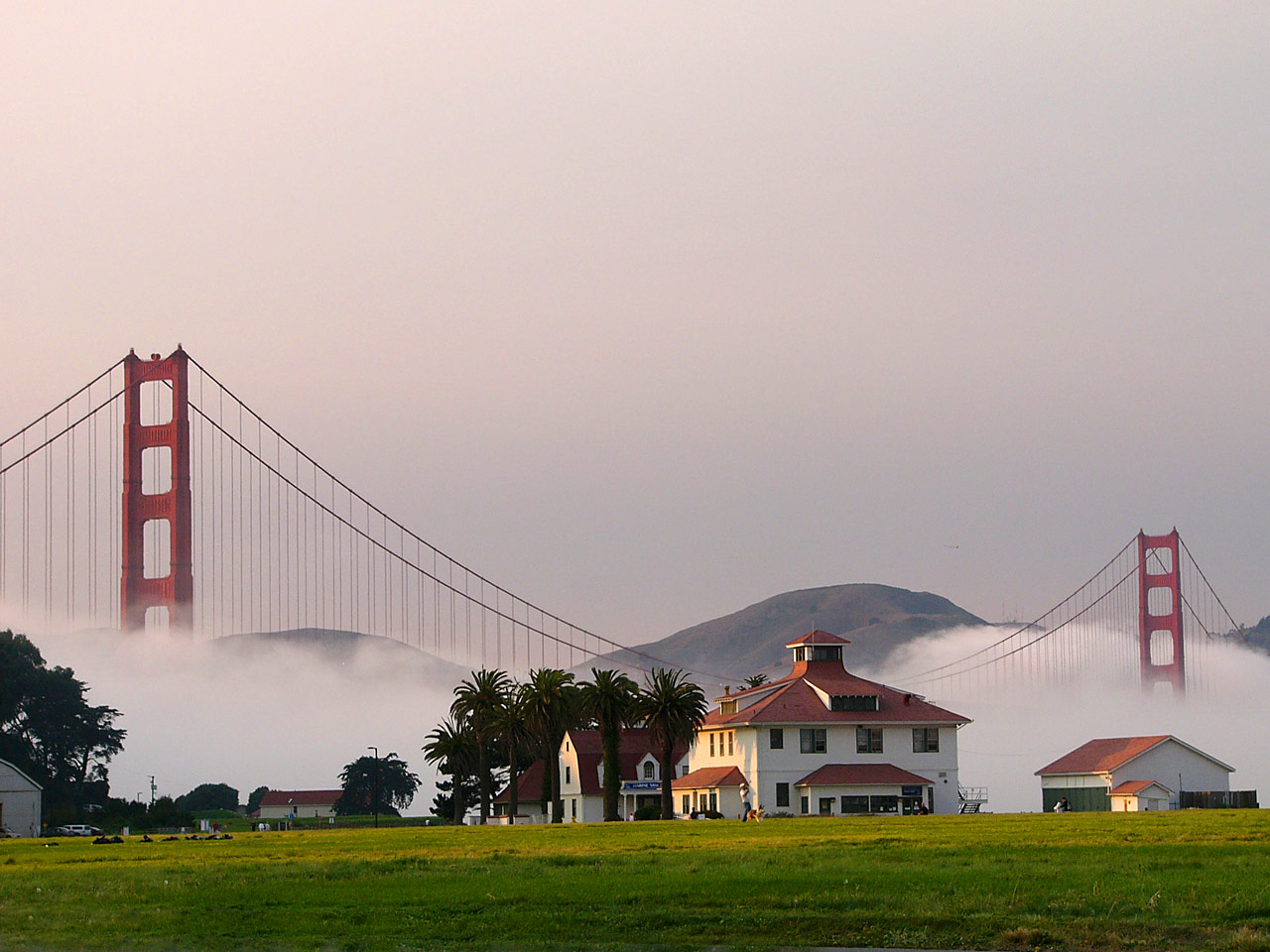 Presidio of San Francisco, fog over Golden Gate Bridge - Foreground: Old Coast Guard Station